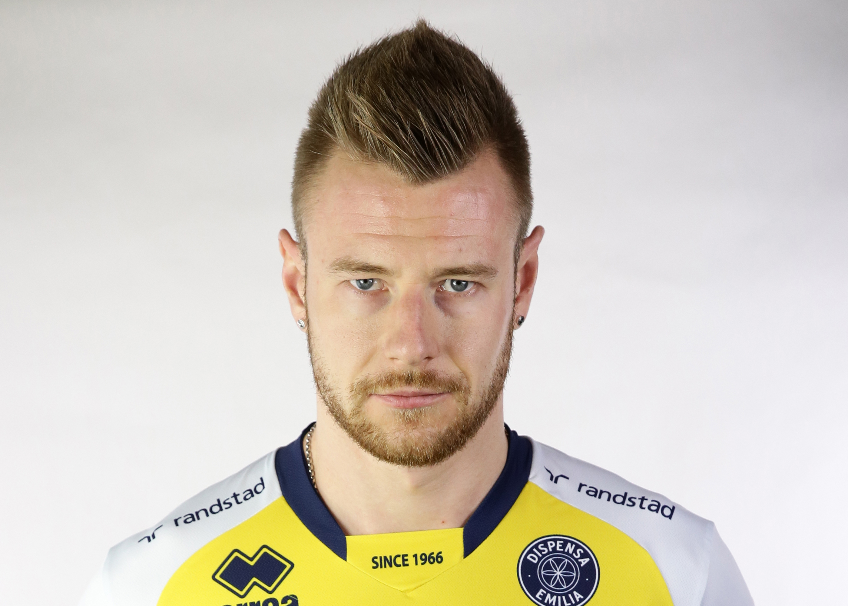 profile image of Ivan Zaytsev, volleyball player (ITA)